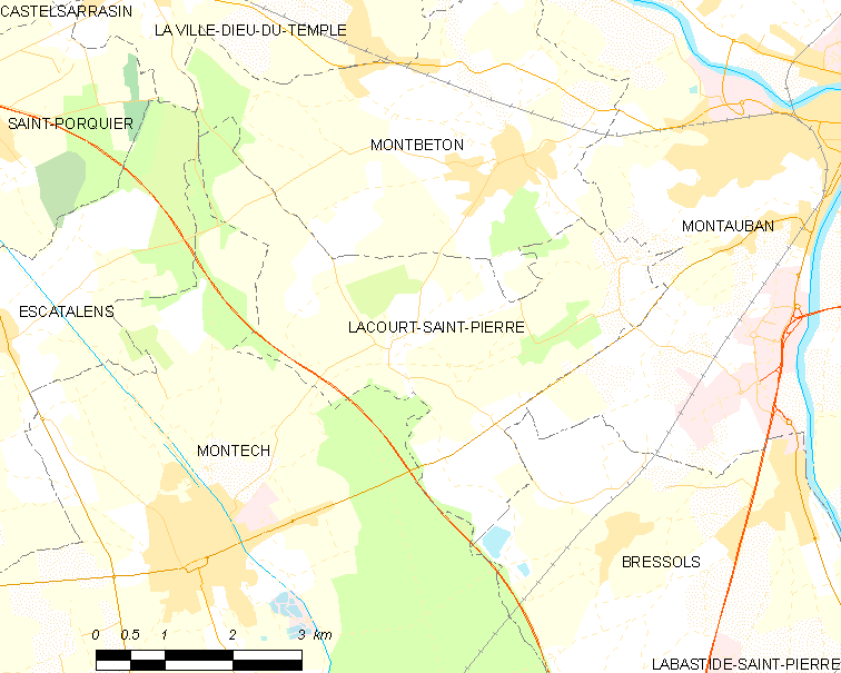 Map of French municipality Lacourt-Saint-Pierre